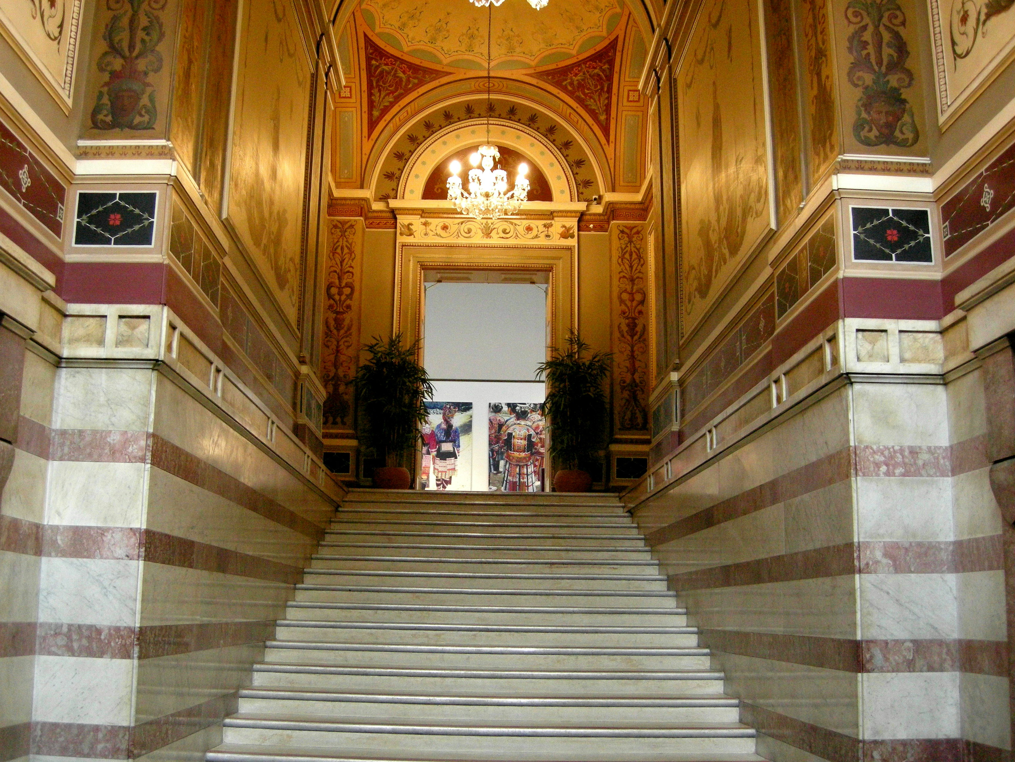 Bankfield Museum, Halifax, West Yorkshire, England. 53.43'.57".N; 1.51'.48".W.